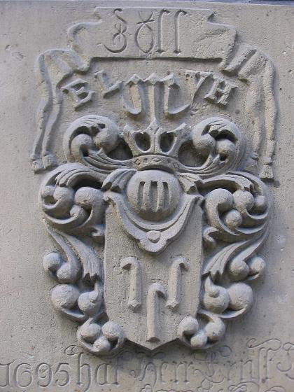 Coat of arms, family von Hake. Part of a plaque at water mill "Bäkemühle", Kleinmachnow, Brandenburg, Germany.